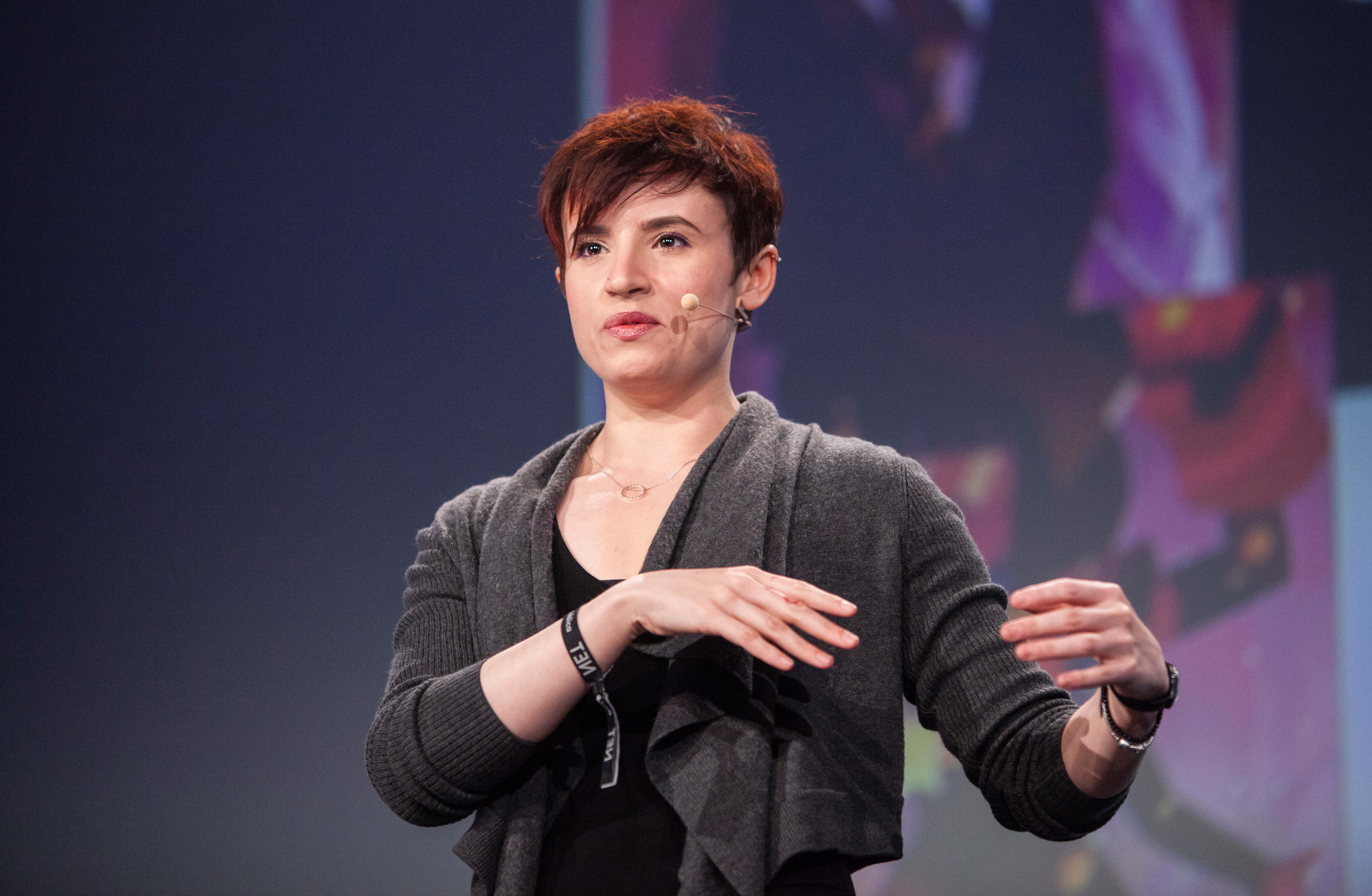 Laurie Penny with "Change The Story, Change The World" on 2016-05-04 at re:publica in Berlin. Photo: re:publica/Jan Zappner CC BY 2.0